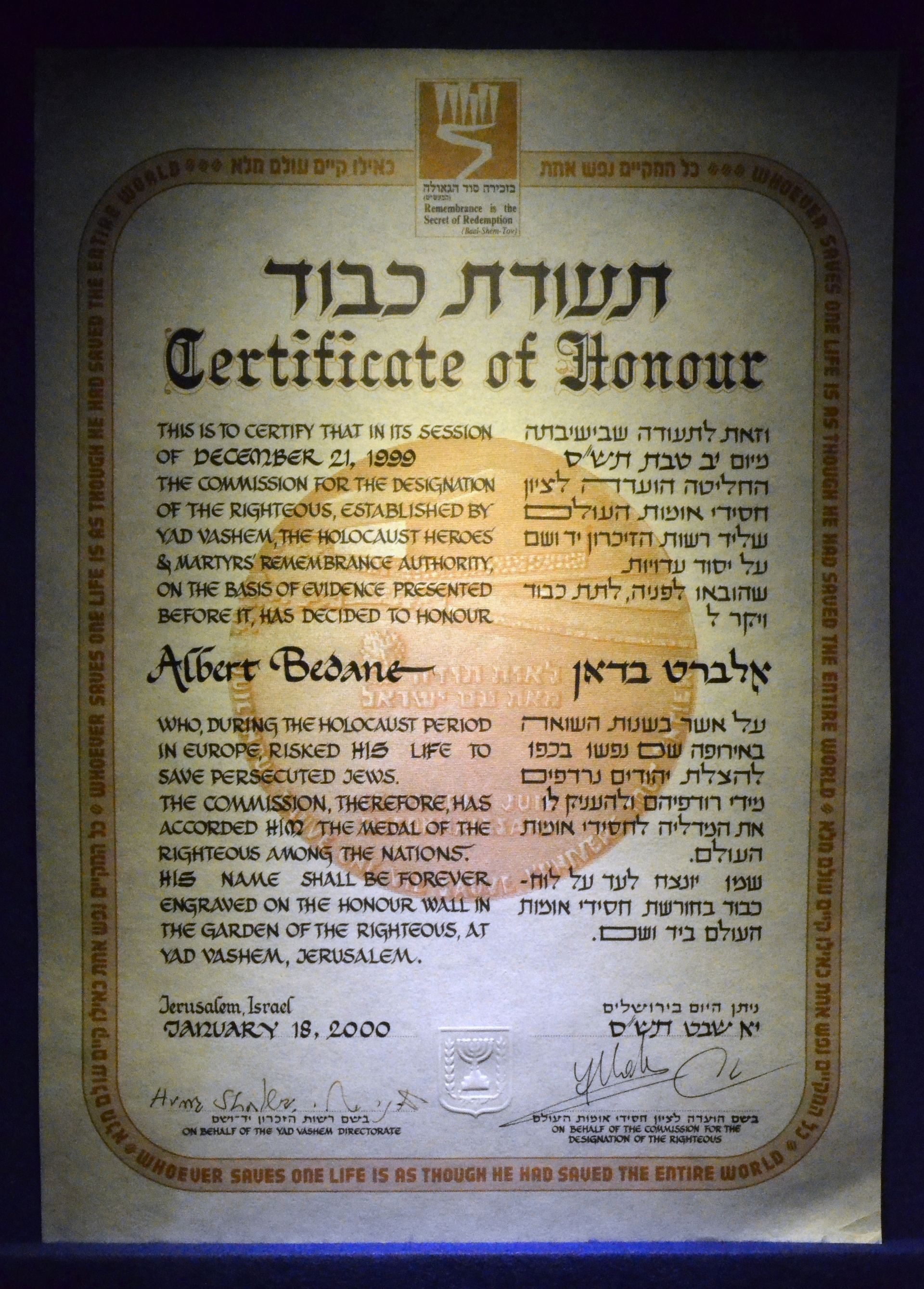 Albert Bedane from Jersey: Certificate of Honour as Righteous Among the Nations.